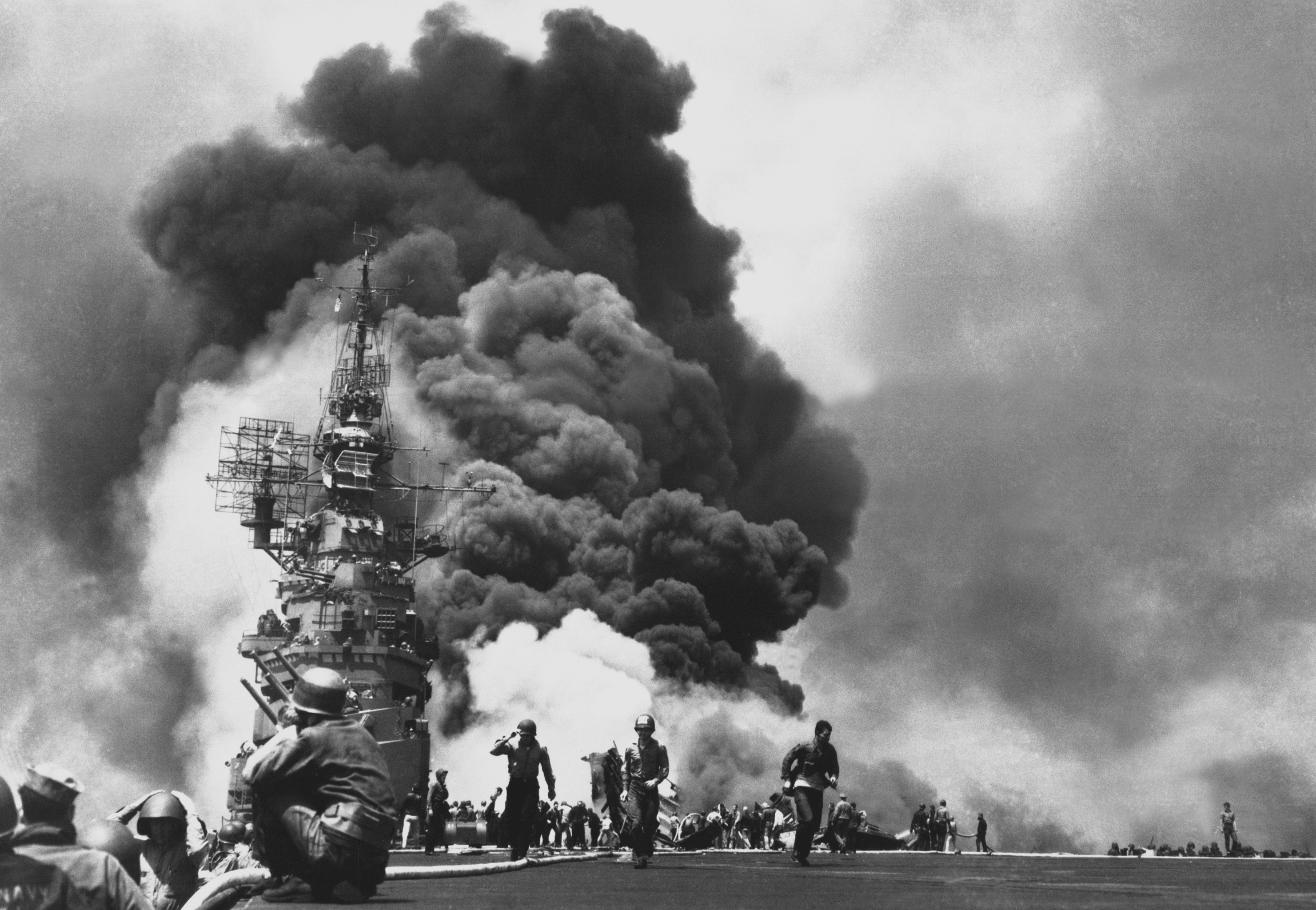 "Bunker Hill hit by two Kamikazes in 30 seconds on 11 May 1945 off Kyushu. Dead-372. Wounded-264., 1943 - 1958", from Archival Research Catalog.